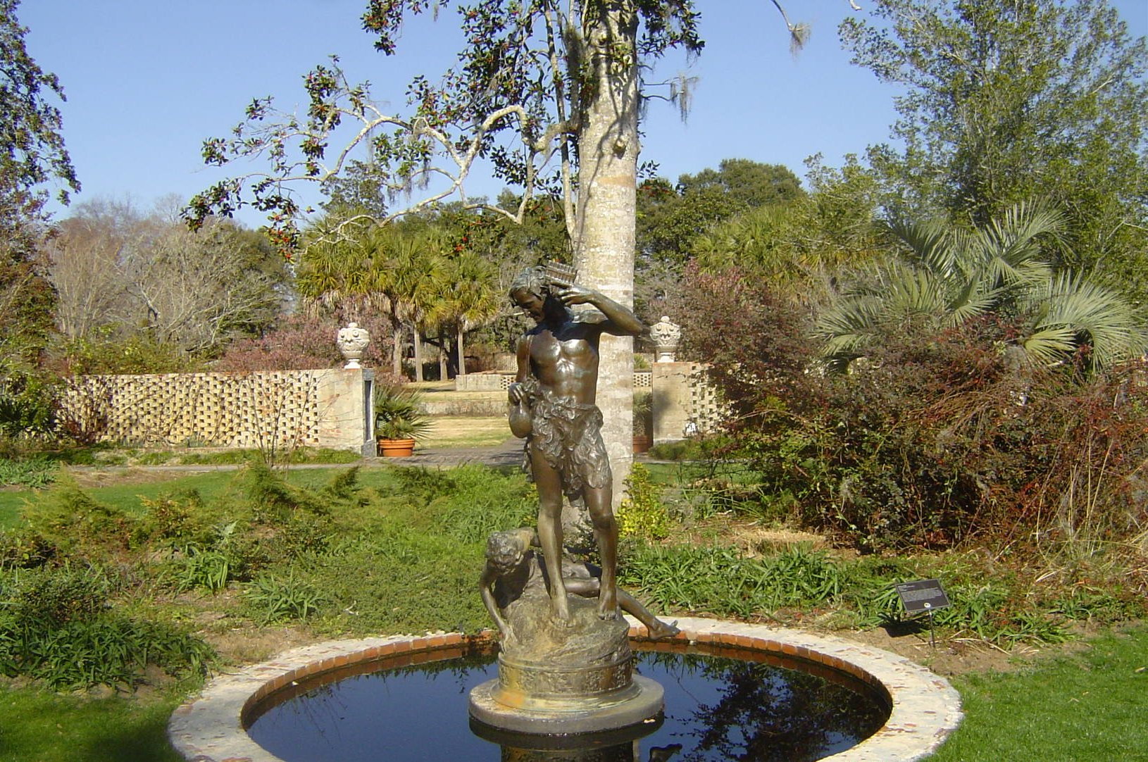 Brookgreen Gardens - sculpture garden: Fauns at Play by Charles Keck. There are two casts of this sculpture; the original was commissioned for the estate of J. J. Raskob in Centreville, Maryland, U.S.[1]